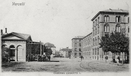 Vercelli, tram to Fara in front of the Umberto barrack